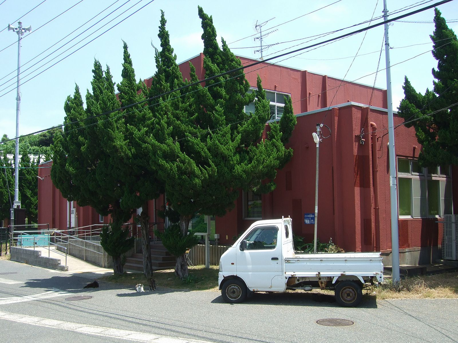 Kitakyushu City Ainoshima Civic Subcenter, Aino Island, Kokurakita Ward, Kitakyushu City, Fukuoka, Japan.